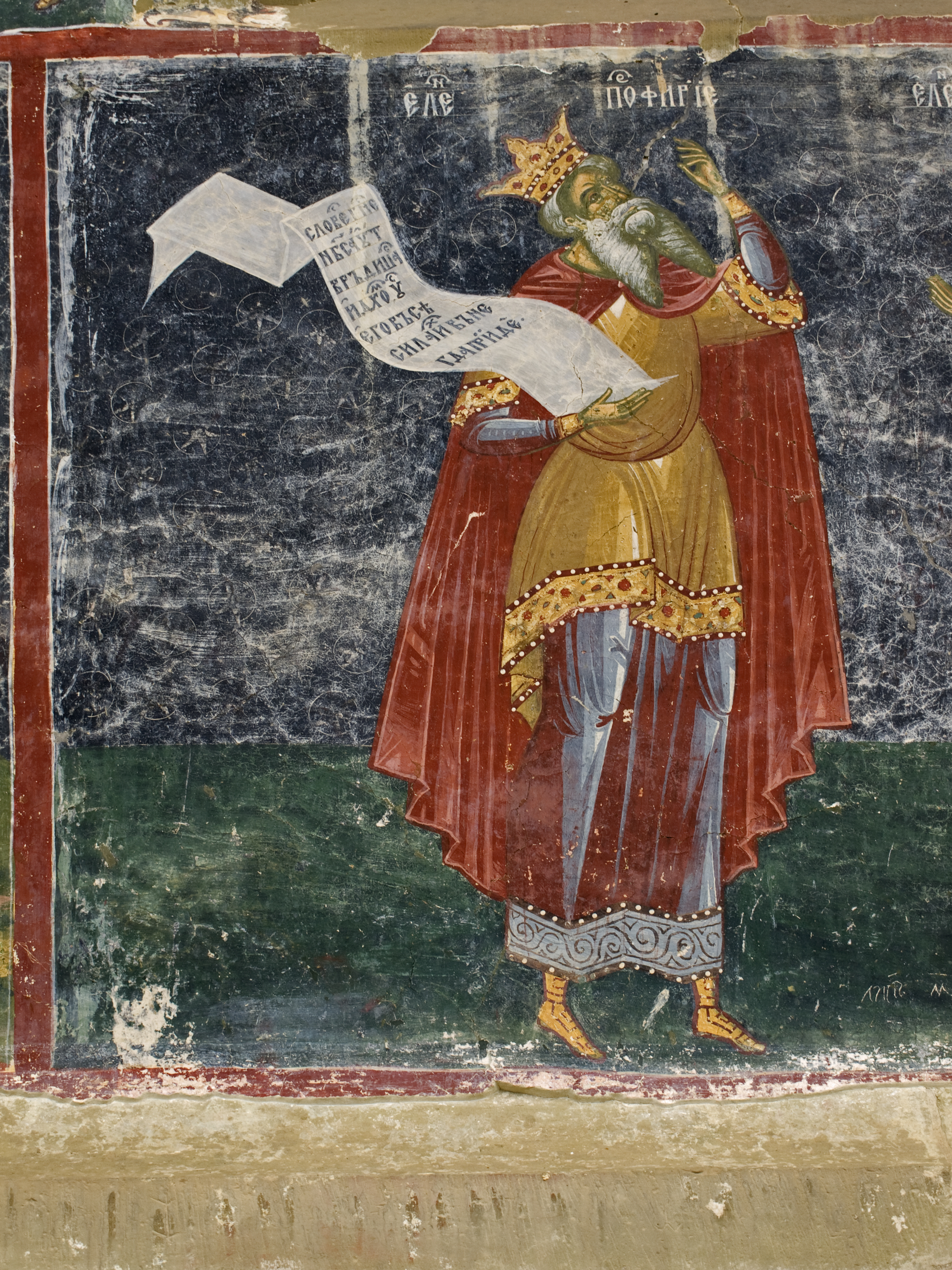 Porphyrios, detail of the Tree of Jesse, the left one in the row of Greek philosophers, Sucevita Monastery, 1535